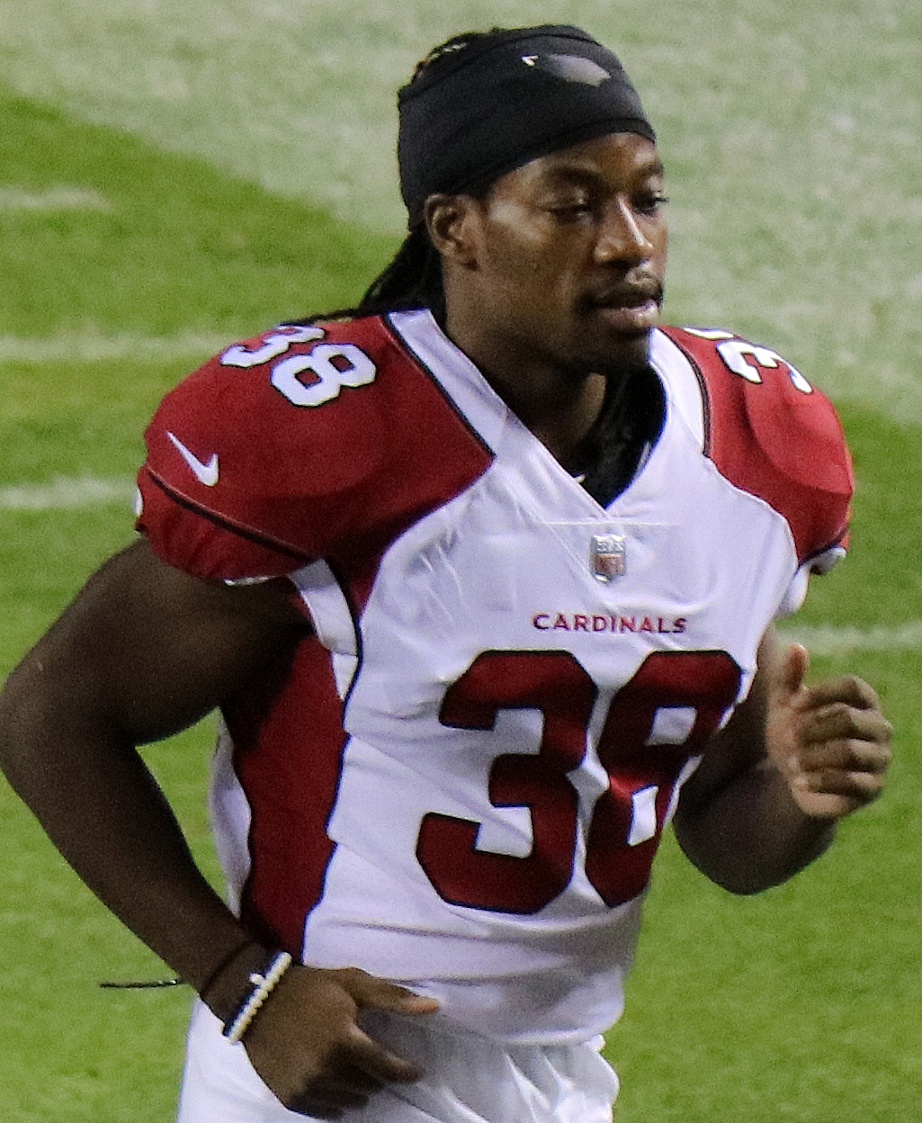 Andre Ellington, a player on the National Football League.